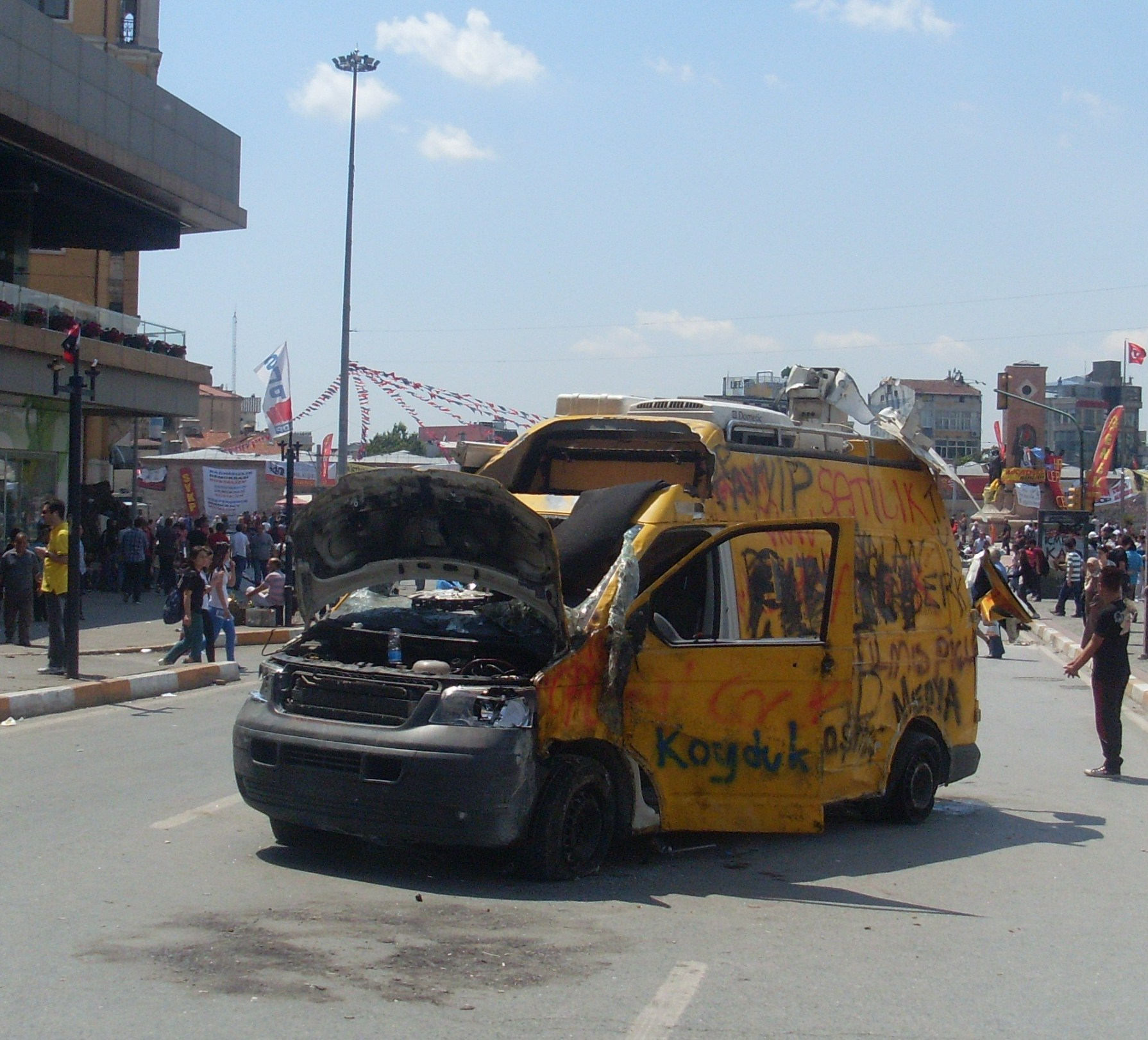 NTV broadcast van at Taksim Square on 3rd June